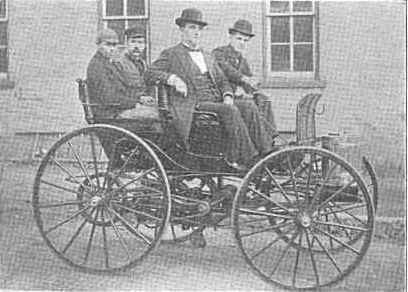 Hall Gasoline Trap by John W. Hall, of the John W. Hall & Sons Co., carriage makers in Jacksonville. Ill., planned to offer a motor car, and therefore built a handsome 4-passenger automobile weighting it at 700 lbs. It was scheduled fotr the Chicago Times-Herald contest in November, 1895, but failed to appear due to the non-operable Kane-Pennington engine used. It later recieved two Walls engines made by the Decatur Gasoline Engine Company, each driving a rear wheel.